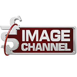 logo of image channel